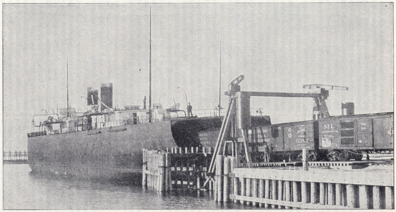 Photograph of the Pere Marquette Railway Company ferry PERE MARQUETTE Notes: Illustration from J. B. Mansfield, ed., History of the Great Lakes. Volume I, Chicago: J. H. Beers & Co., 1899 Inscriptions: "Steel Car Ferry Pere Marquette. Capacity 30 Loaded Freight Cars."